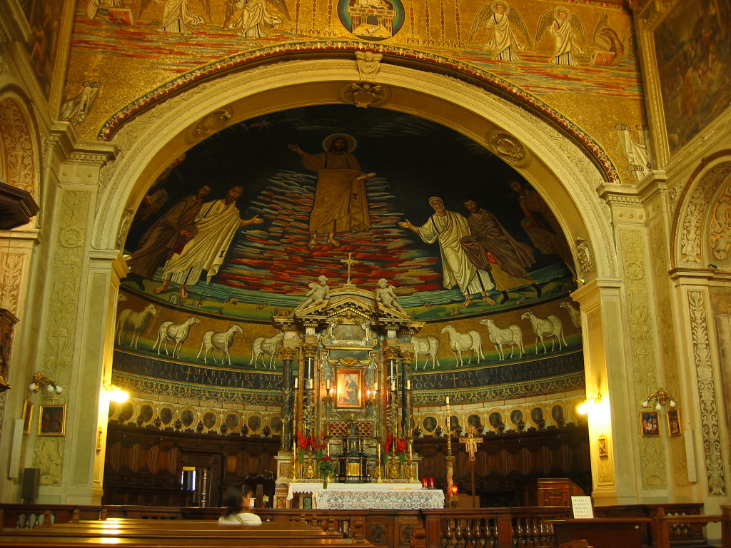 Altar and apsis of the Basilica dei Santi Cosma e Damiano in Rome.